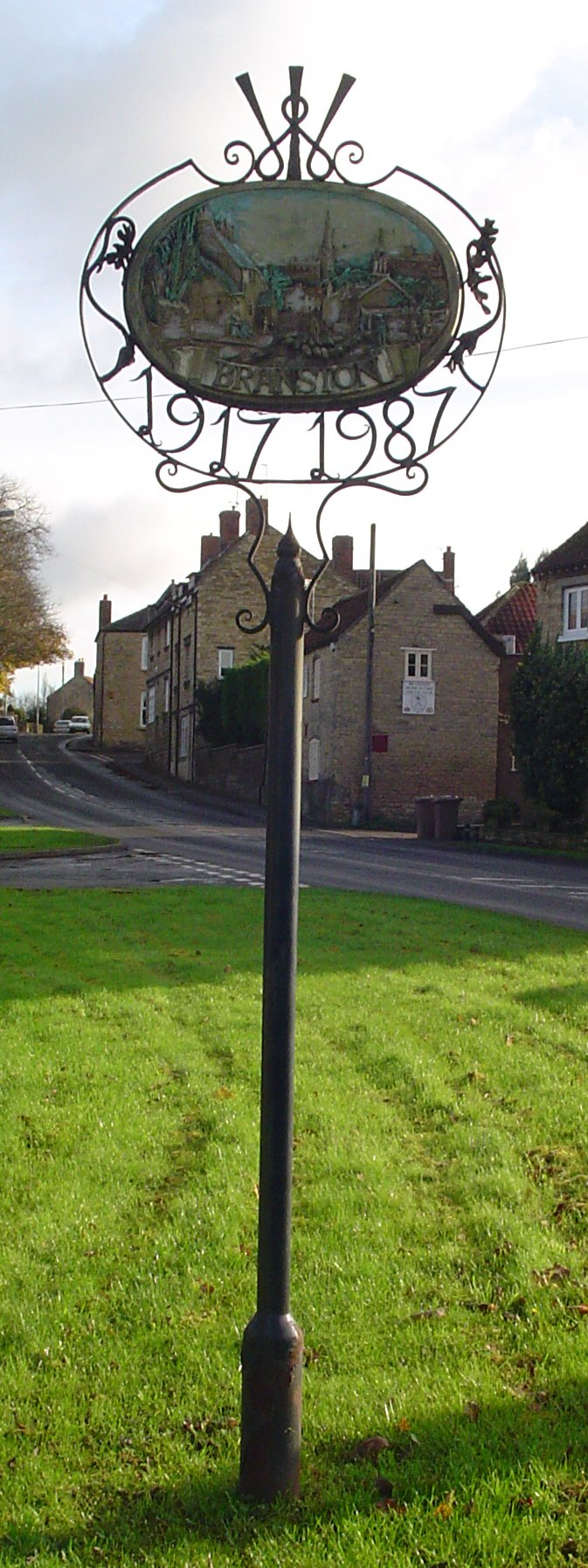 Signpost in Branston, Lincolnshire